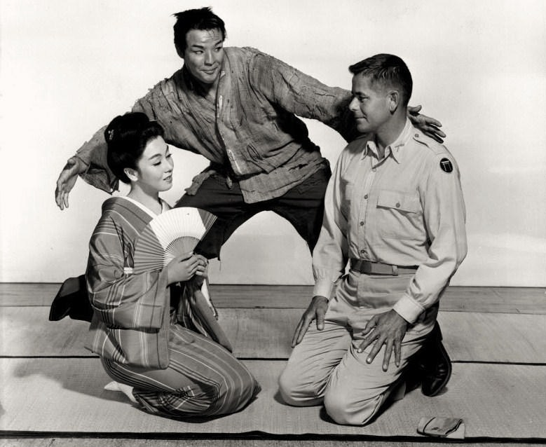 Left to right: Machiko Kyō, Marlon Brandon, and Glenn Ford in The Teahouse of the August Moon (1956) - publicity still (original image damaged, modified and cropped : see source)